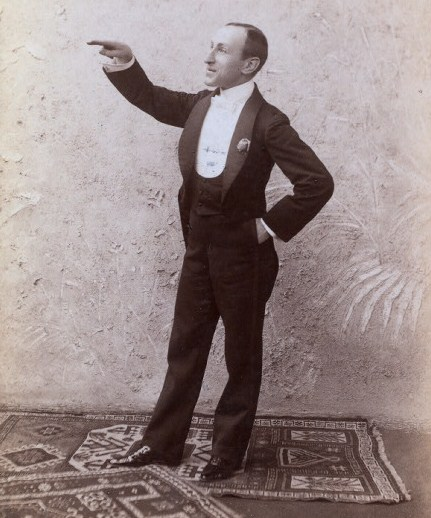 english actor Etienne Girardot in Charley's Aunt, by Brandon Thomas, Manhattan Theatre, Broadway